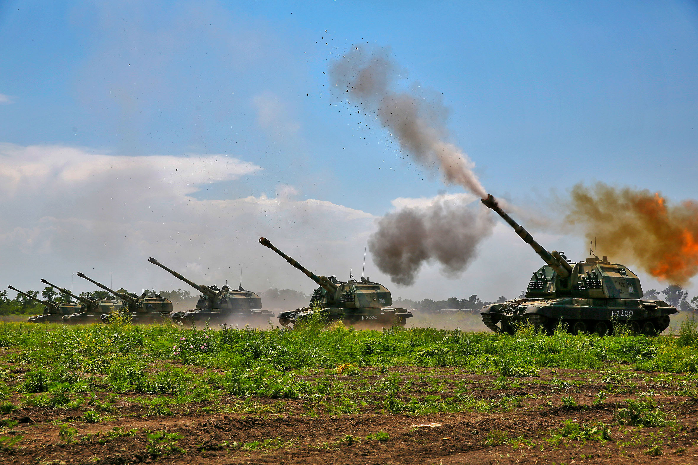 2S19M1 Msta-S.